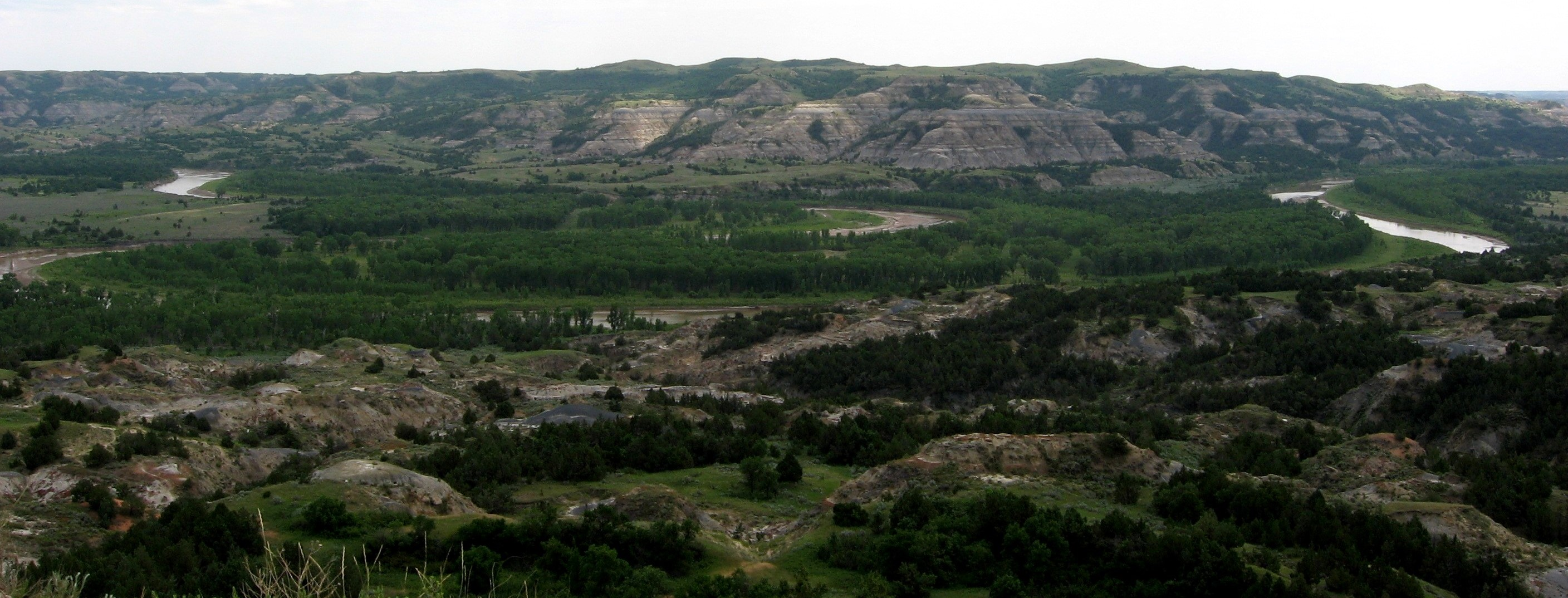 A picture of the Little Missouri River in the north unit of Theodore Roosevelt National Perk, North Dakota, US.